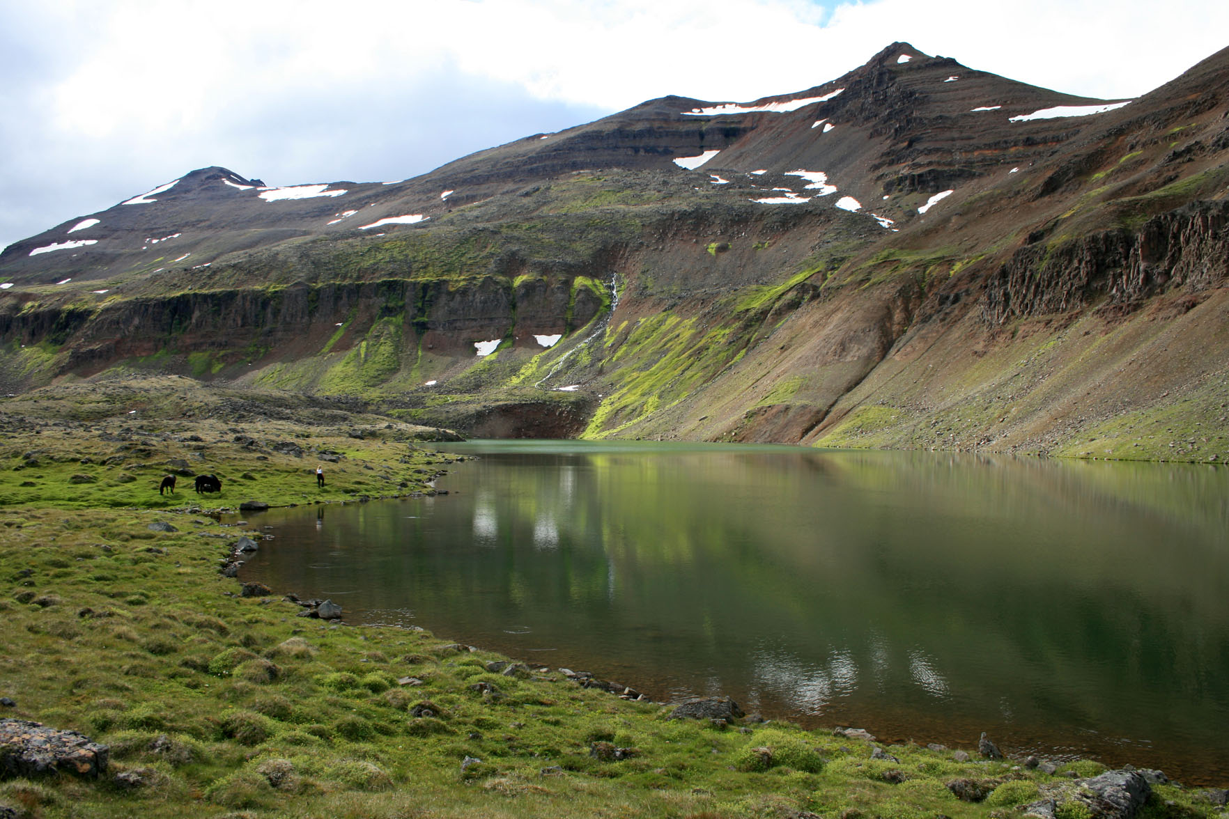 Lake Nykurtjörn in Svarfaðardalur valley North Iceland, Brennihnjúkur and Litlihnjúkur mounain peaks